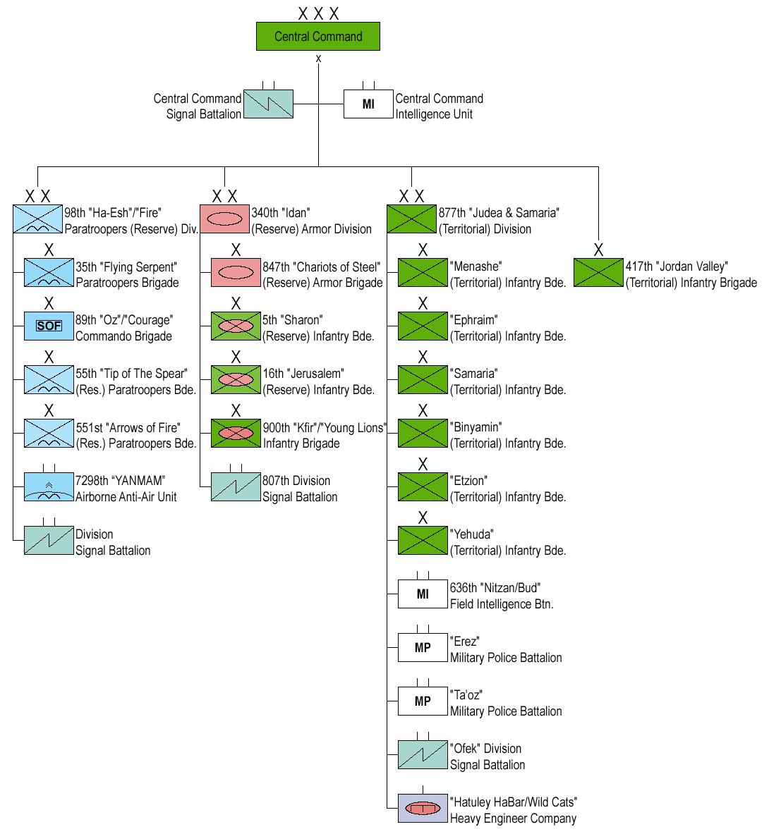 Structure of the known units of the Israel Defense Forces Ground Forces Central Command.